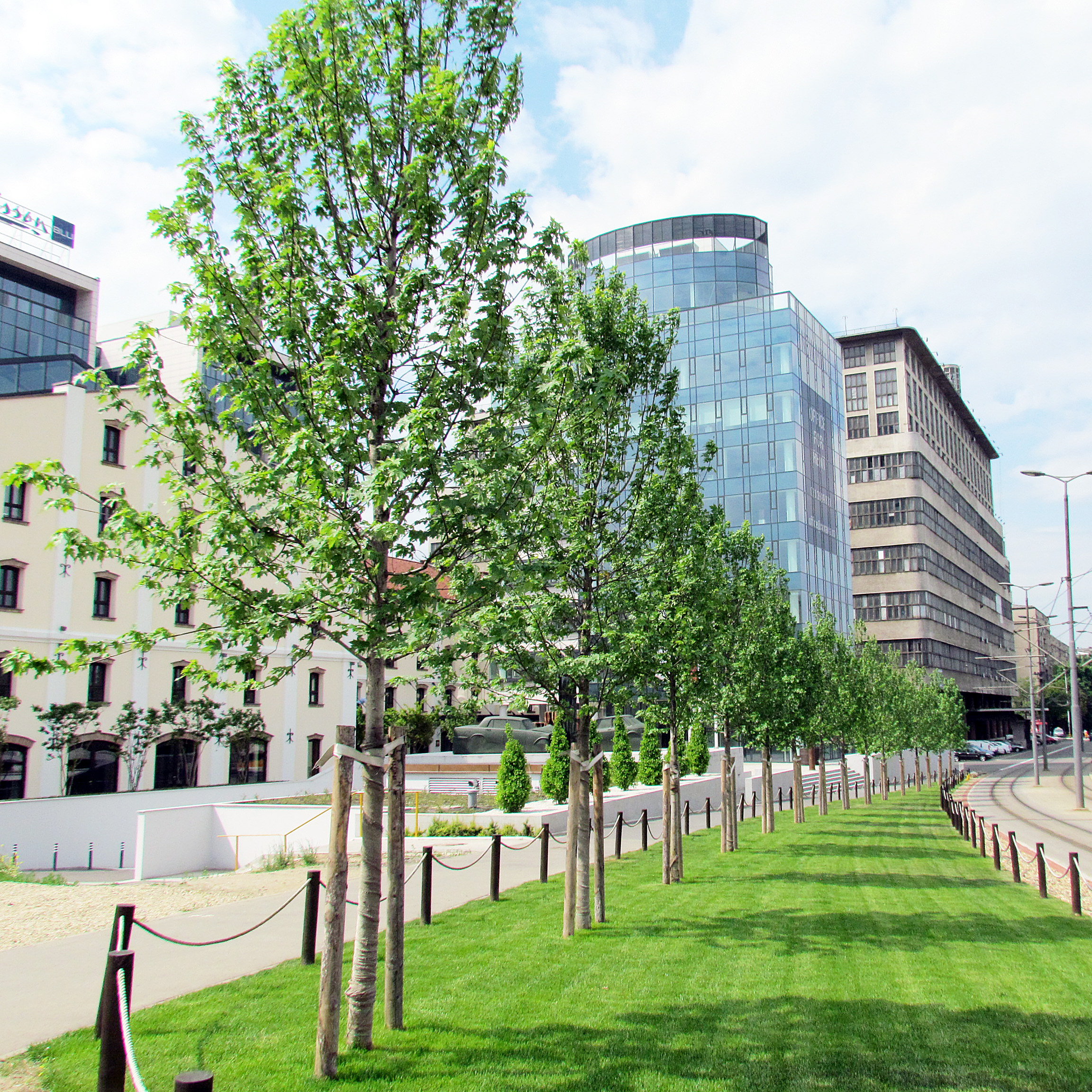 Acer x freemanii in front Radison blue hotel Belgrade